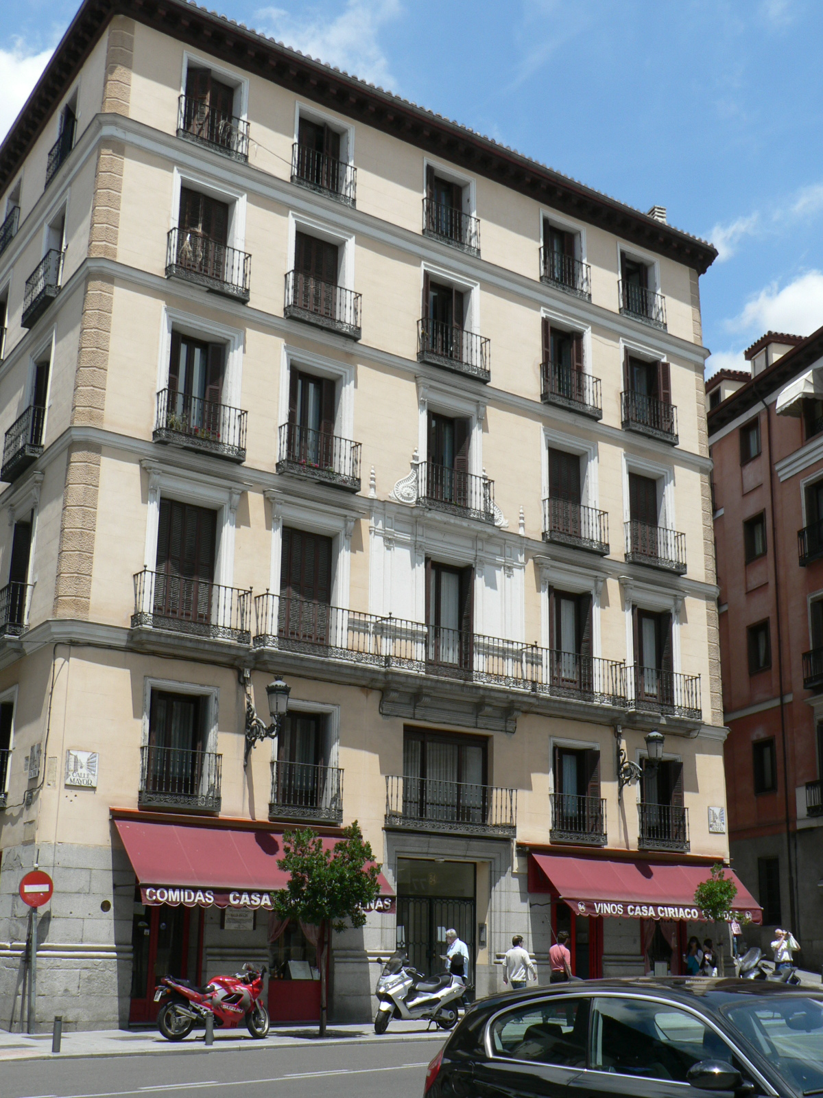 From the third floor of this house-pension situated in N° 88 of the Calle Mayor street, it is thought that the 31 of May of 1906 the anarchist Mateo Morral attempted against the kings of Spain, Alfonso XIII and Victoria Eugenia de Battemberg, the day of theirs wedding in Madrid.